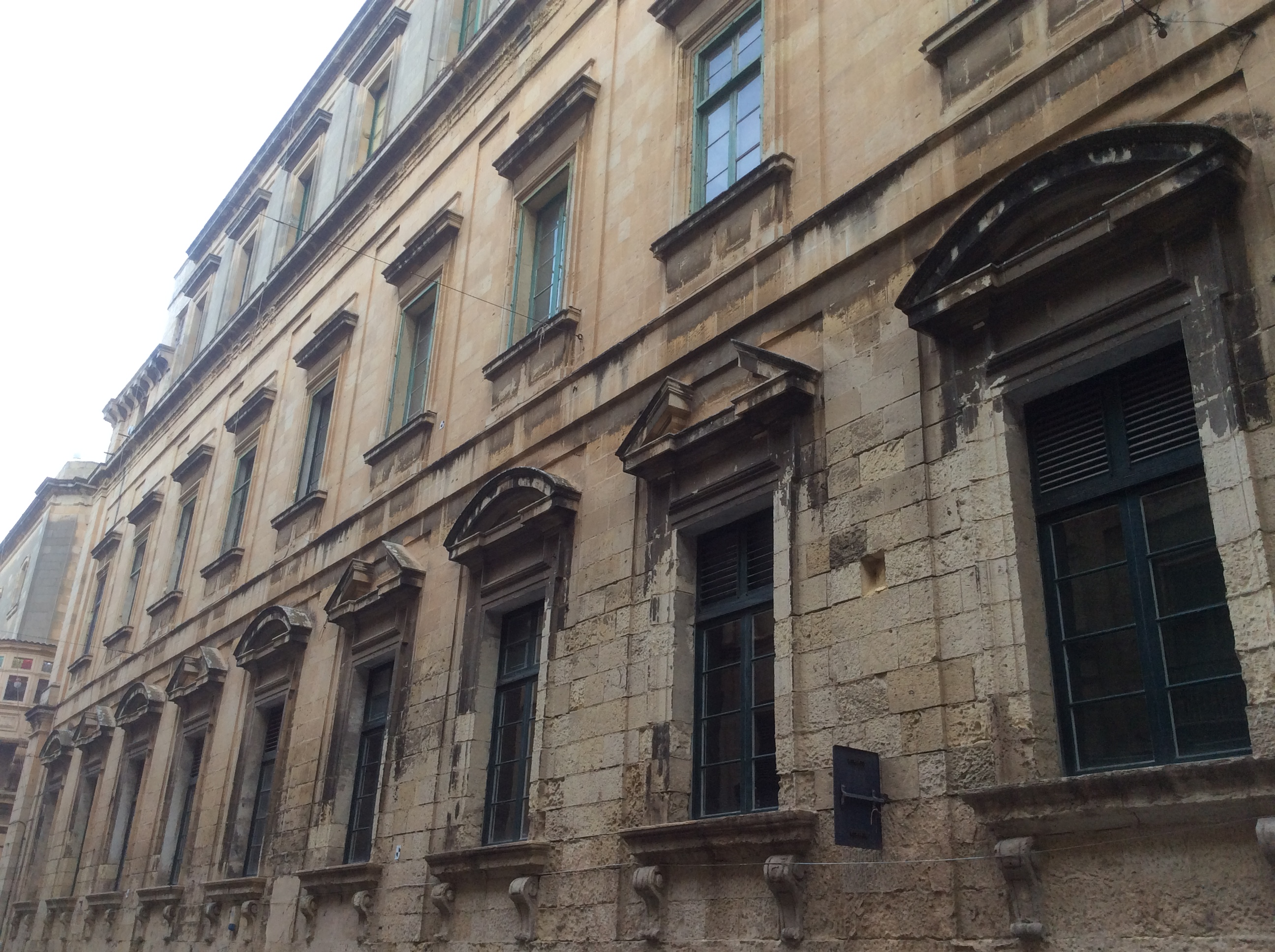 Valletta